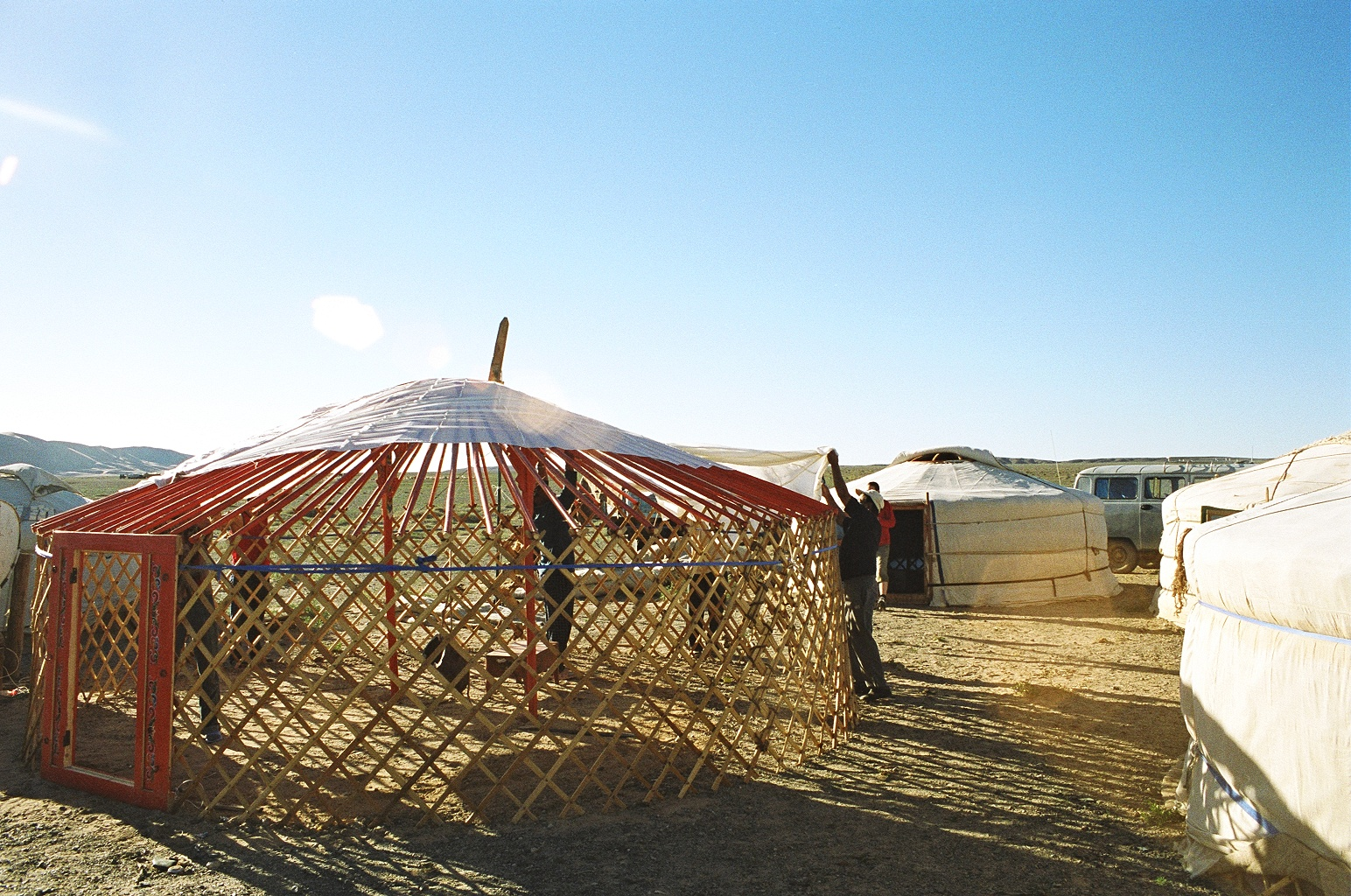 Mongolian ger: placing the thin inner cover on the roof